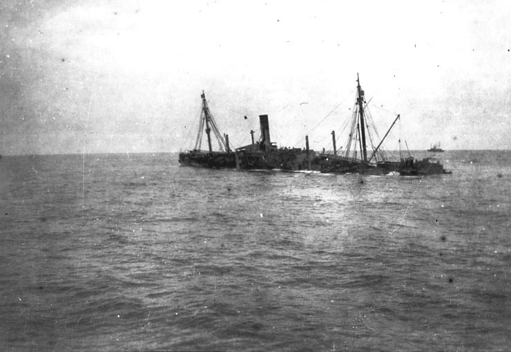 S.S. Montanan (American Freighter, 1913) After she was torpedoed by the German submarine U-90 on 15 August 1918. She sank the following day. Courtesy of James A. Turner, Jr., from the collection of Samuel A. Turner, Jr., who served in USS Wakiva (SP-160) during World War I. U.S. Naval Historical Center Photograph.